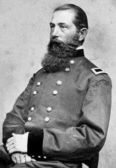 David Allen Russel, Union General. Source: [1]